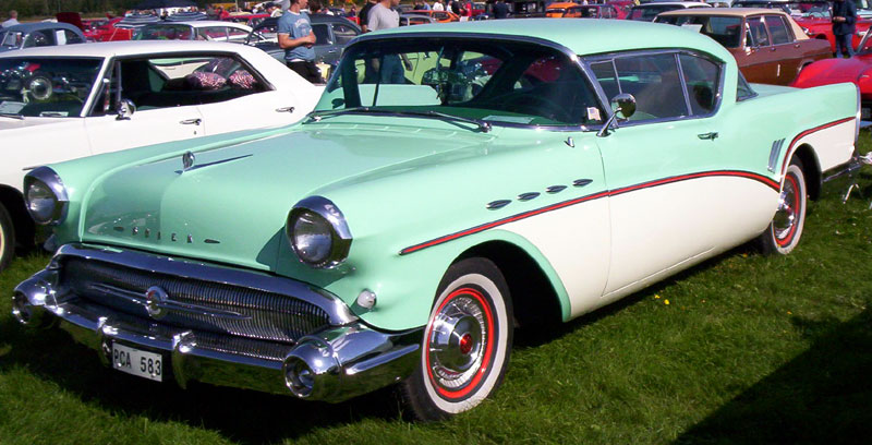 Buick Super 1957